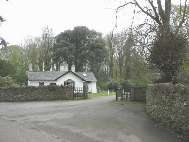 The Back Lodge of Bodorgan Hall This entrance leads to the estate office.